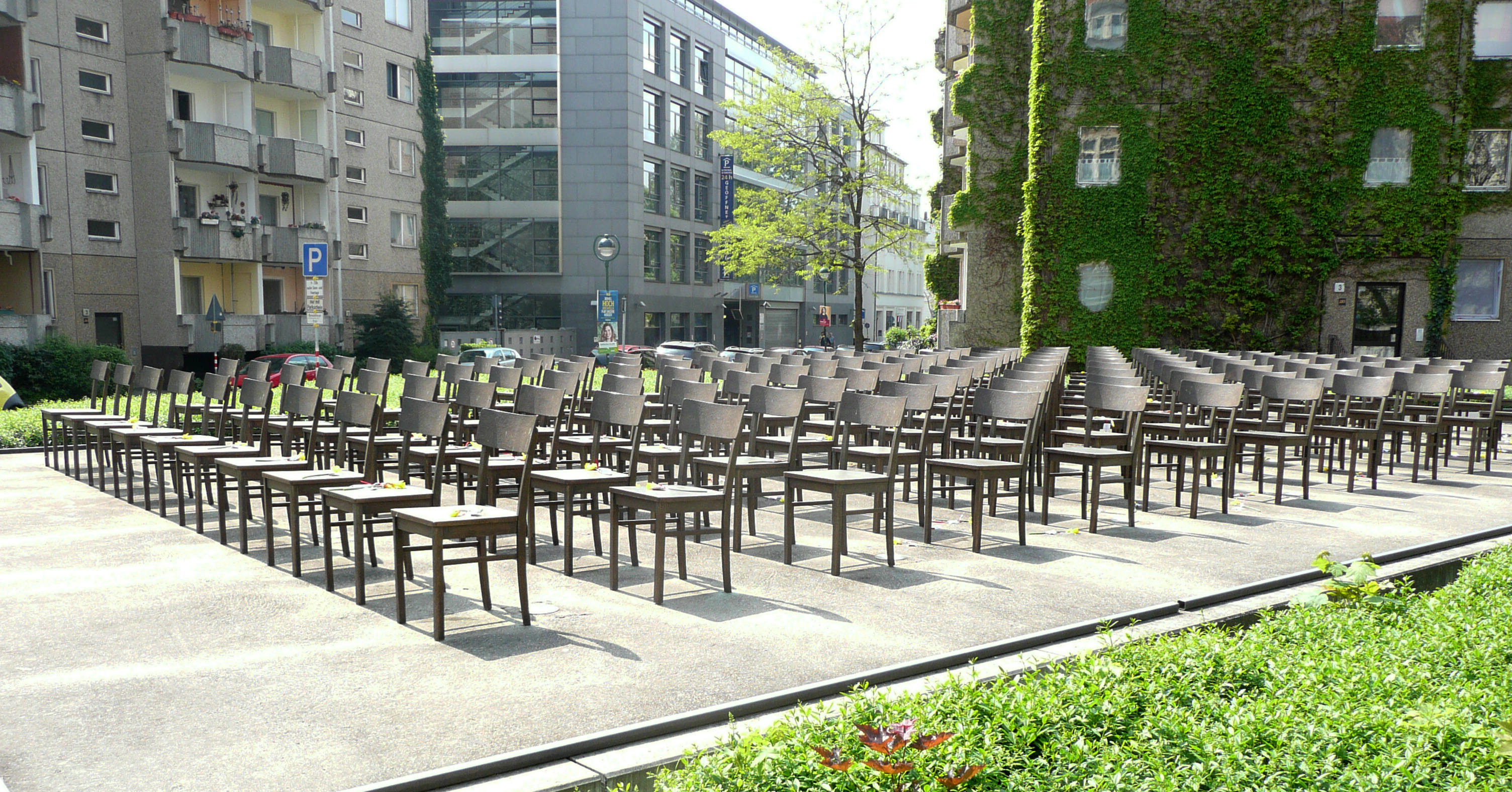 Memorial at the site of the former Great Synagogue in Leipzig, Gottschedstrasse corner Zentralstrasse. Seen from northeast.